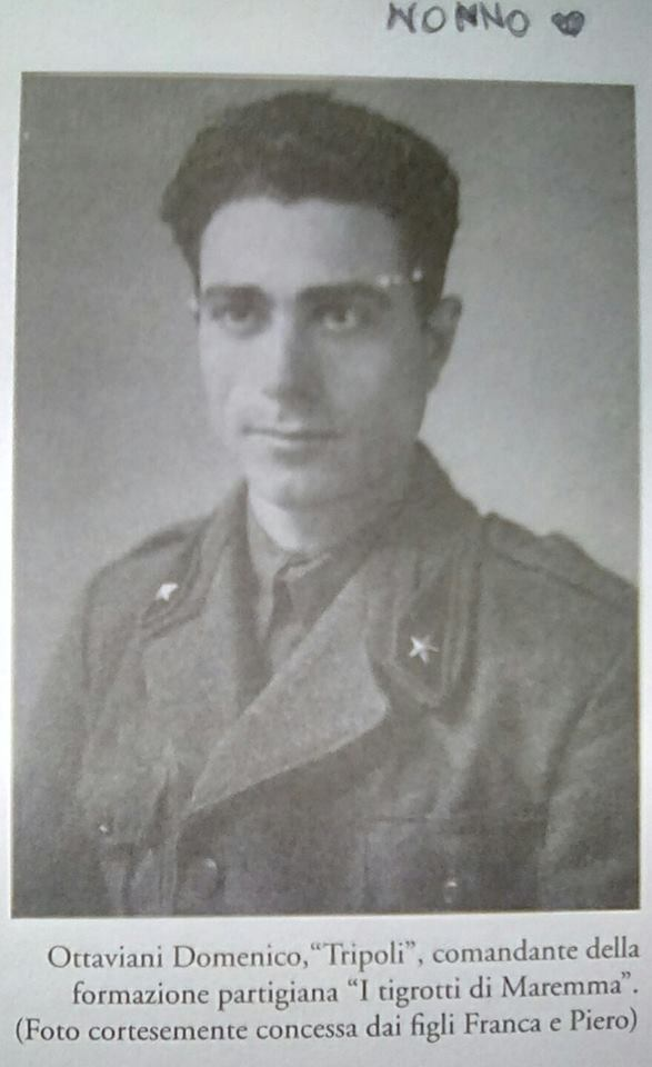 Foto di Ottaviani Domenico (Tripoli)scattata nei primi anni del 1950